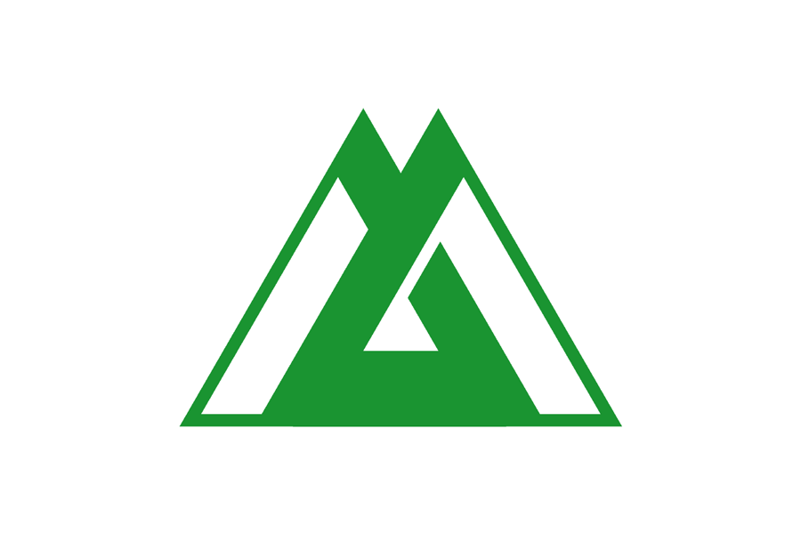 Flag of Toyama Prefecture